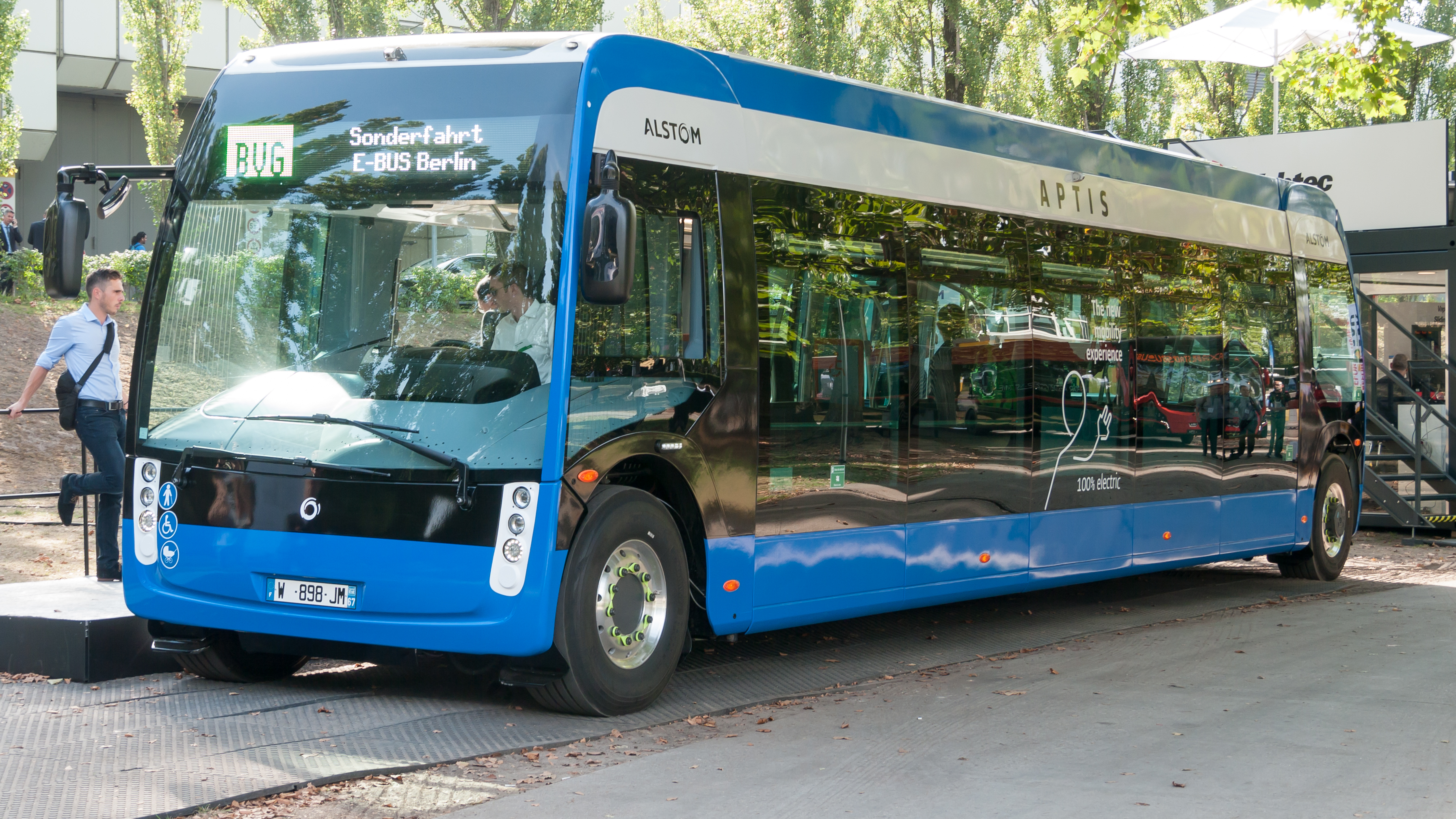 Alstom Aptis at Innotrans 2018, Berlin